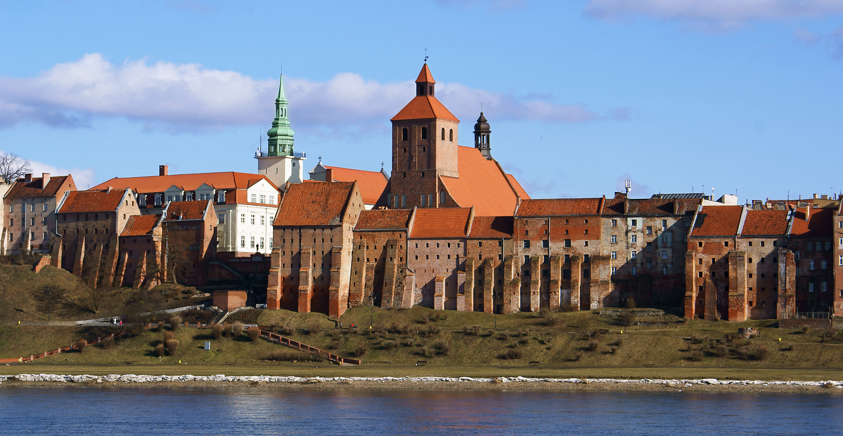 Granaries in Grudziądz seen from the left riverside of the Vistula River.